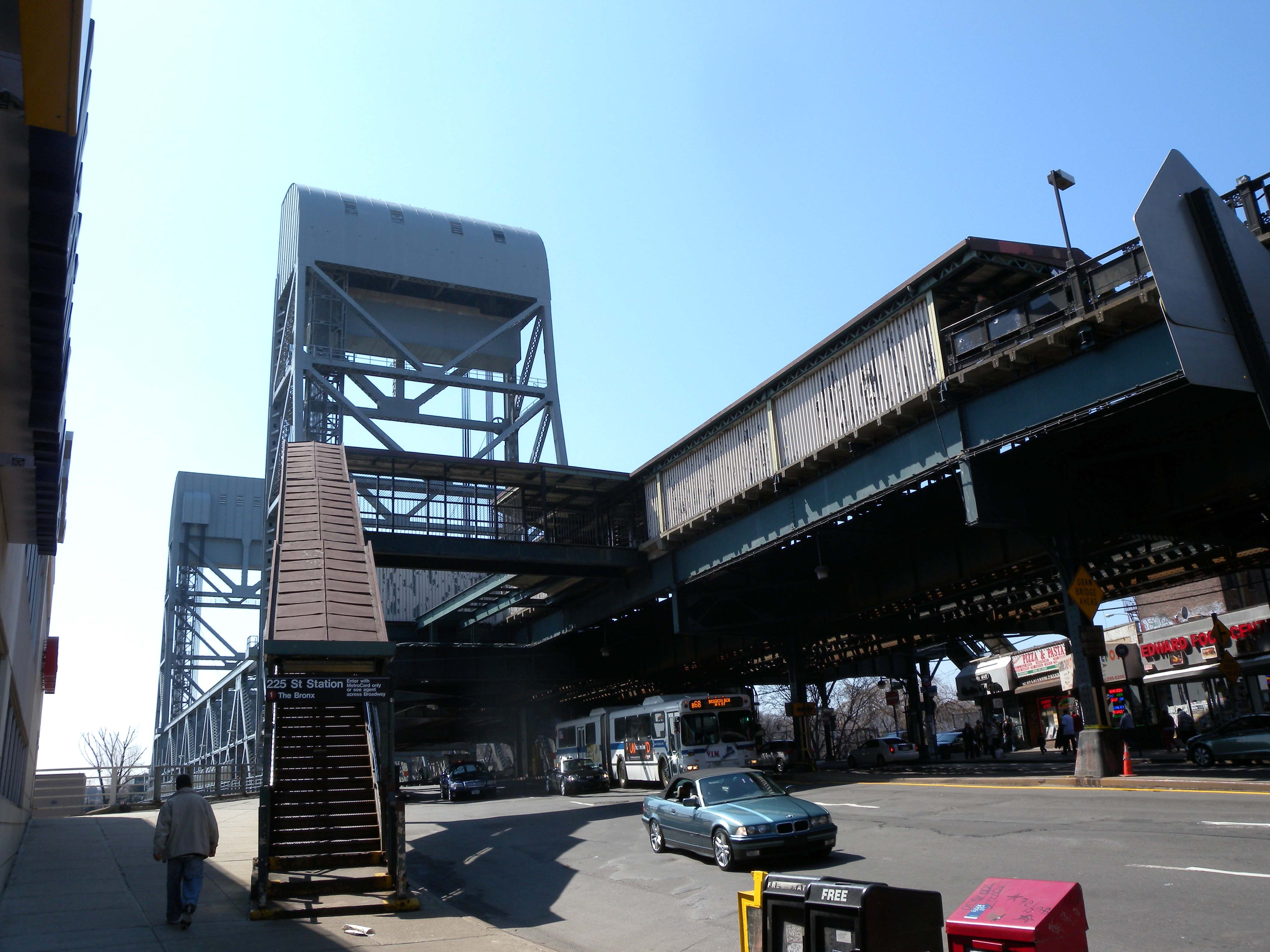 Looking southwest at Broadway Bridge (Manhattan) and 225th Street IRT station on a sunny midday. See also File:BwyWalk0505 Station225thBroadway.jpg.